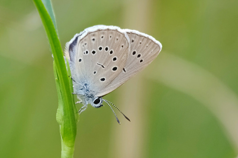 The Scarce Large Blue